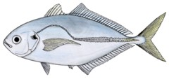 Hand drawn and coloured diagram of the smallmouth scad, Alepes apercna. Based on Carpenter et al 2002 and description by Gunn 1990